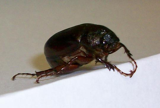 June beetle, Phyllophaga species, indoors. Length: 30 mm. Location: Washtenaw County, Michigan, United States. Identification references: BugGuide; Dillon, Elizabeth S., and Dillon, Lawrence (1961). A Manual of Common Beetles of Eastern North America. Evanston, Illinois: Row, Peterson, and Company.